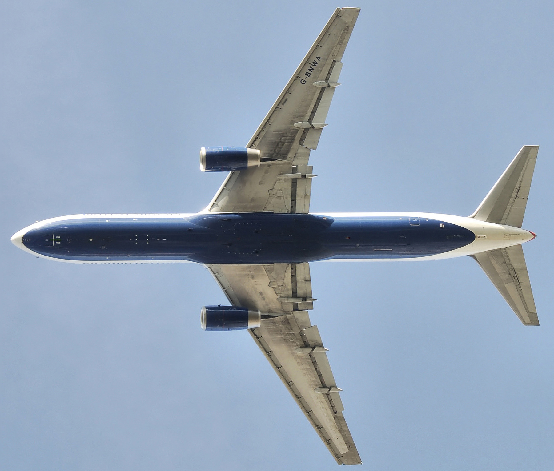 British Airways Boeing 767-300 (G-BNWA) takes off (over my head) from London Heathrow Airport, England. The undercarriages have retracted.